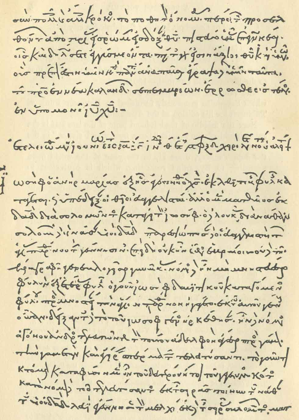 Last page of the Didache